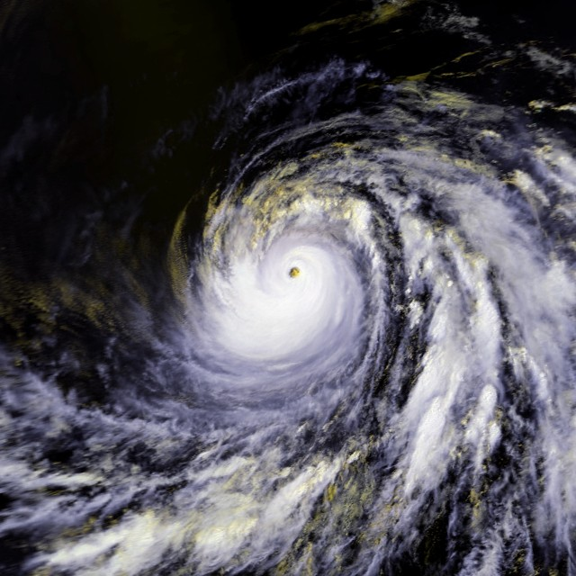 Hurricane Guillermo on August 5 at approximately 2212 UTC. This image was produced from data from NOAA-14, provided by NOAA.